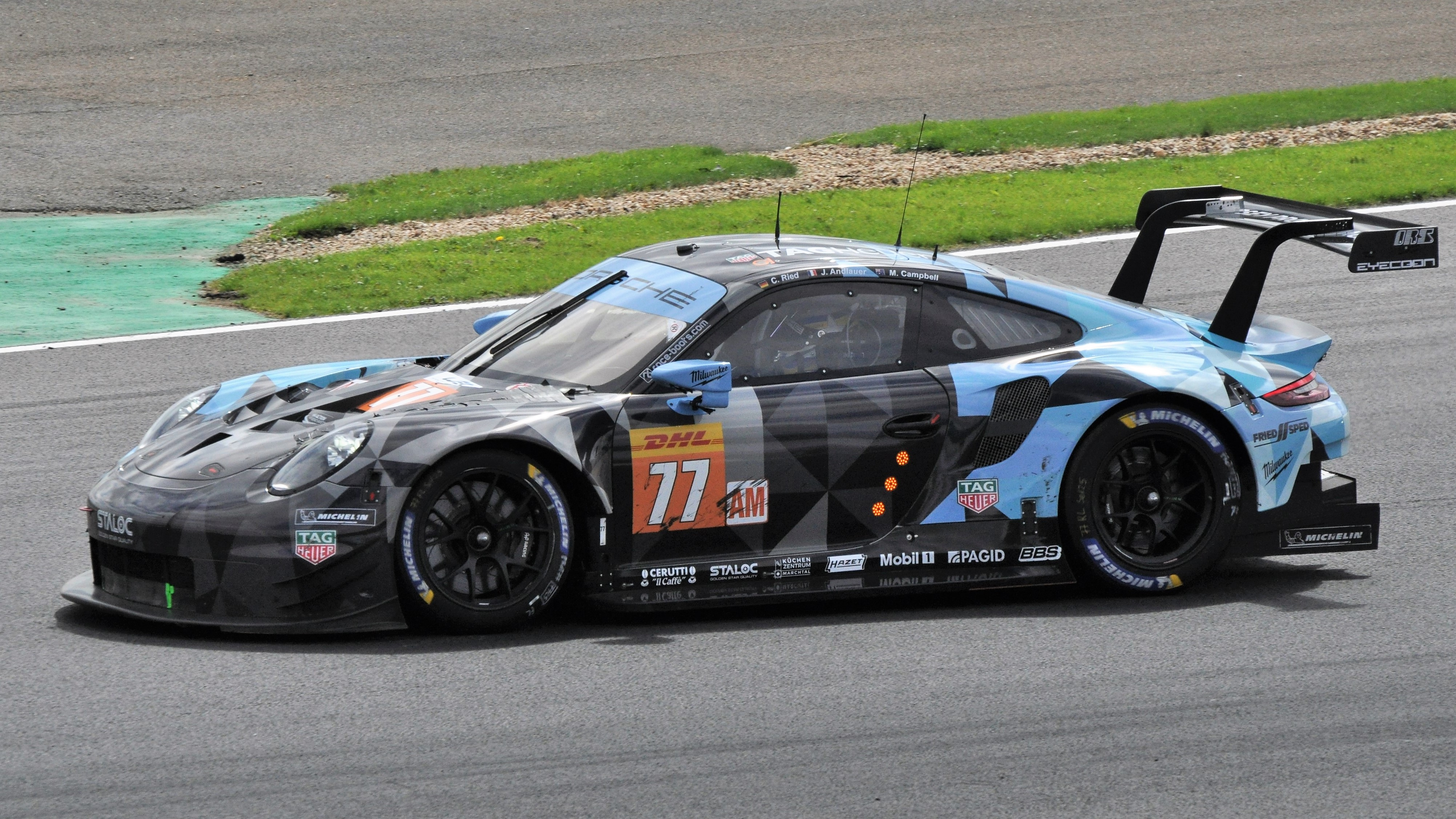 Australian driver Matt Campbell in the number 77 Dempsey-Proton Racing-entered Porsche 911 RSR, at Village corner during the 2018 6 Hours of Silverstone. Campbell and his co-drivers, French driver Julien Andlauer and German Christian Ried, won the LMGTE Am class.